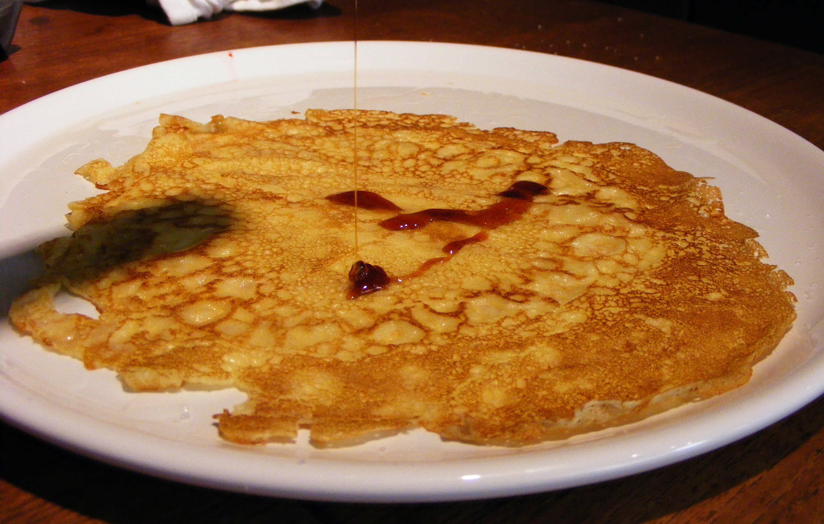 Plain thin pancake with syrup as eaten in the Netherlands